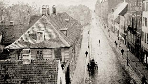 Toldbodvej (now Esplanaden) seen from Store Kongensgade in 1894 in Copenhagen, Denmark